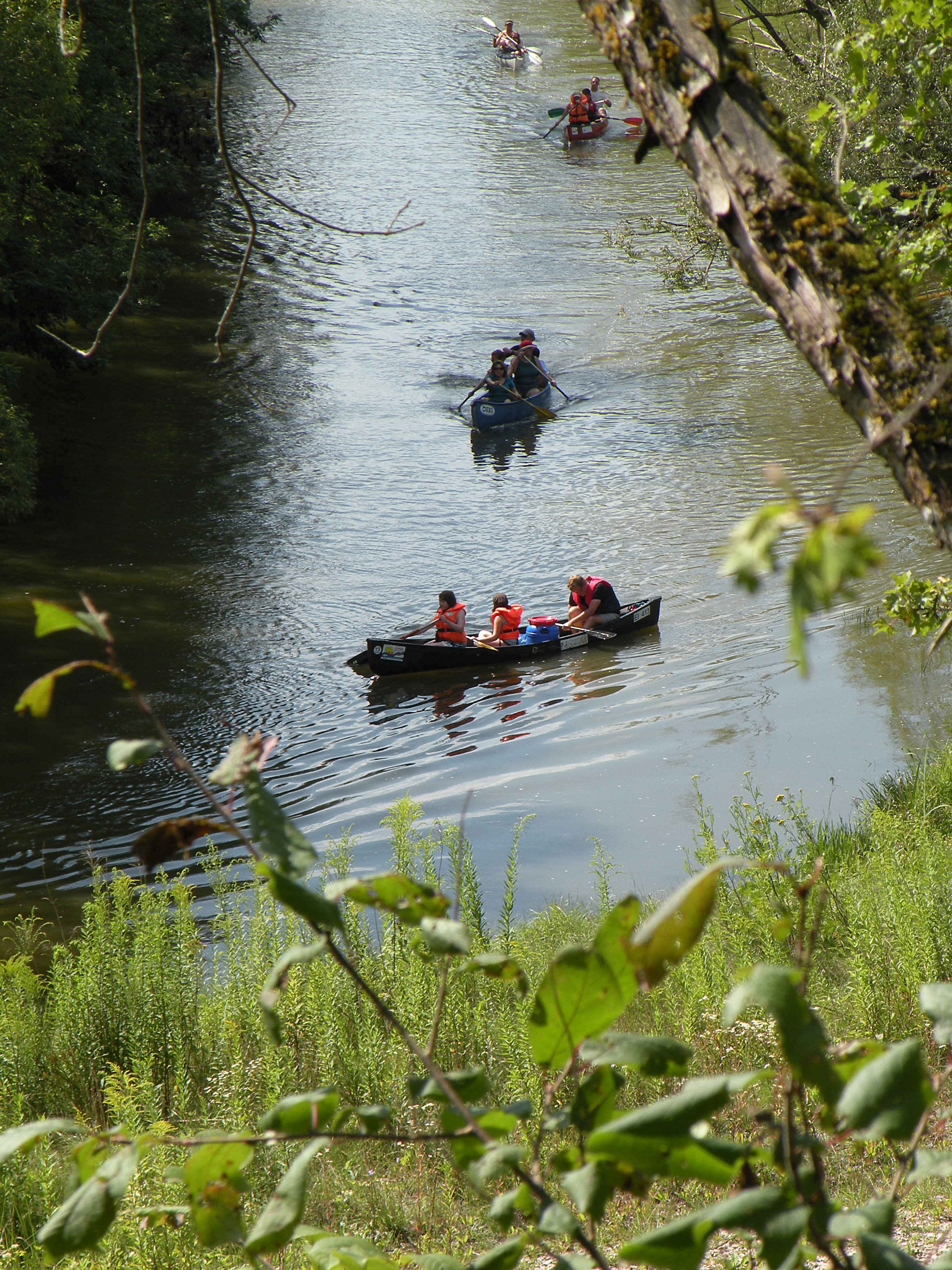 Water_tourism._Altmuehl